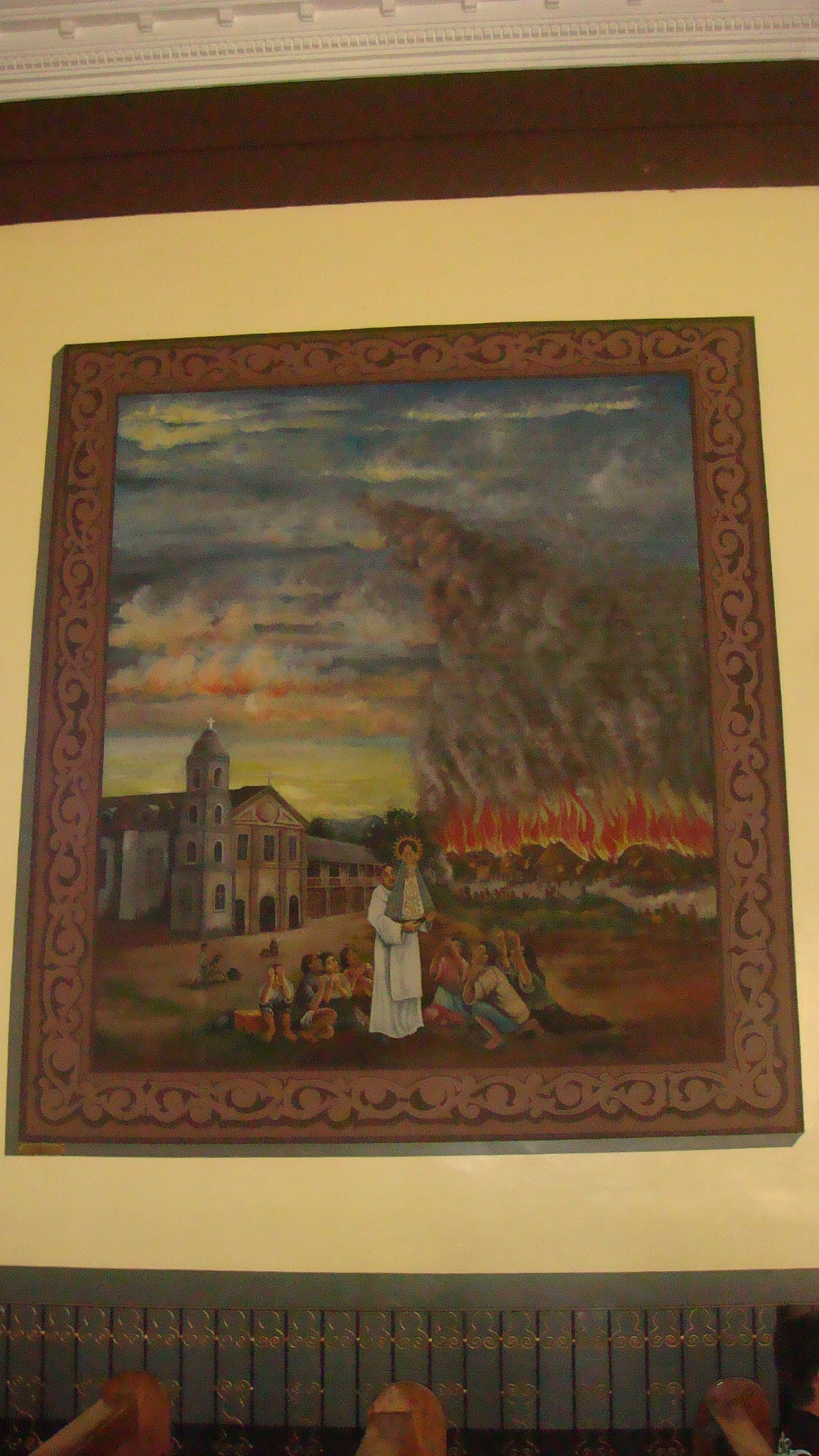 Painting at the side altar (Our Lady of the Rosary of Manaoag), Pangasinan, Philippines